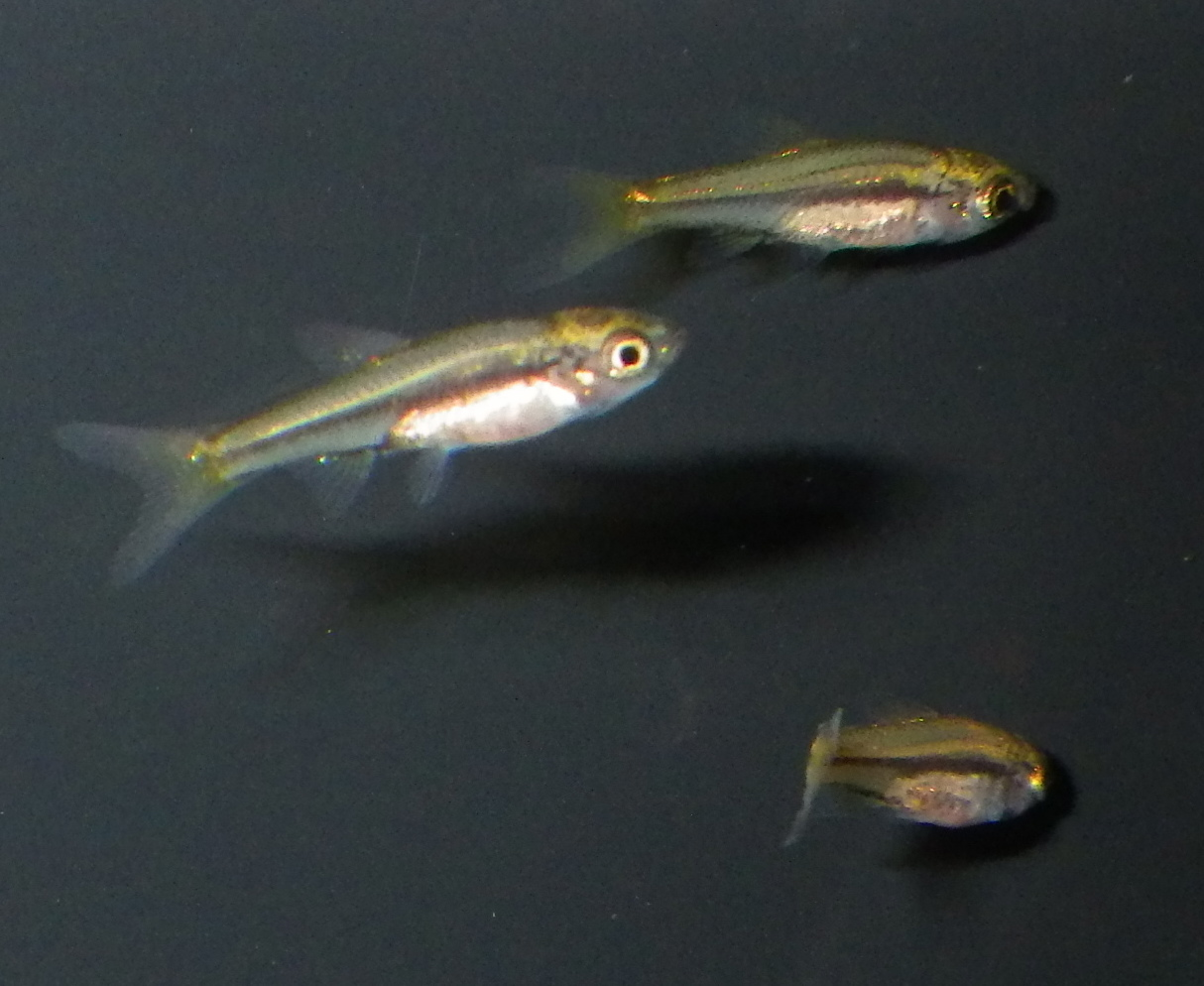 Tank-raised juvenile Rasbora vulcanus, about 45 days old